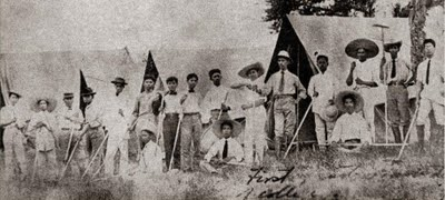 Early faculty and students of the UP College of Agriculture, now part of the University of the Philippines Los Baños.